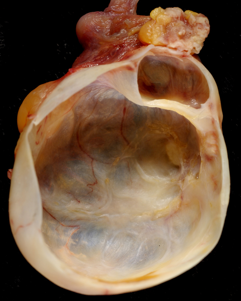 Mucinous Cystadenoma of Ovary